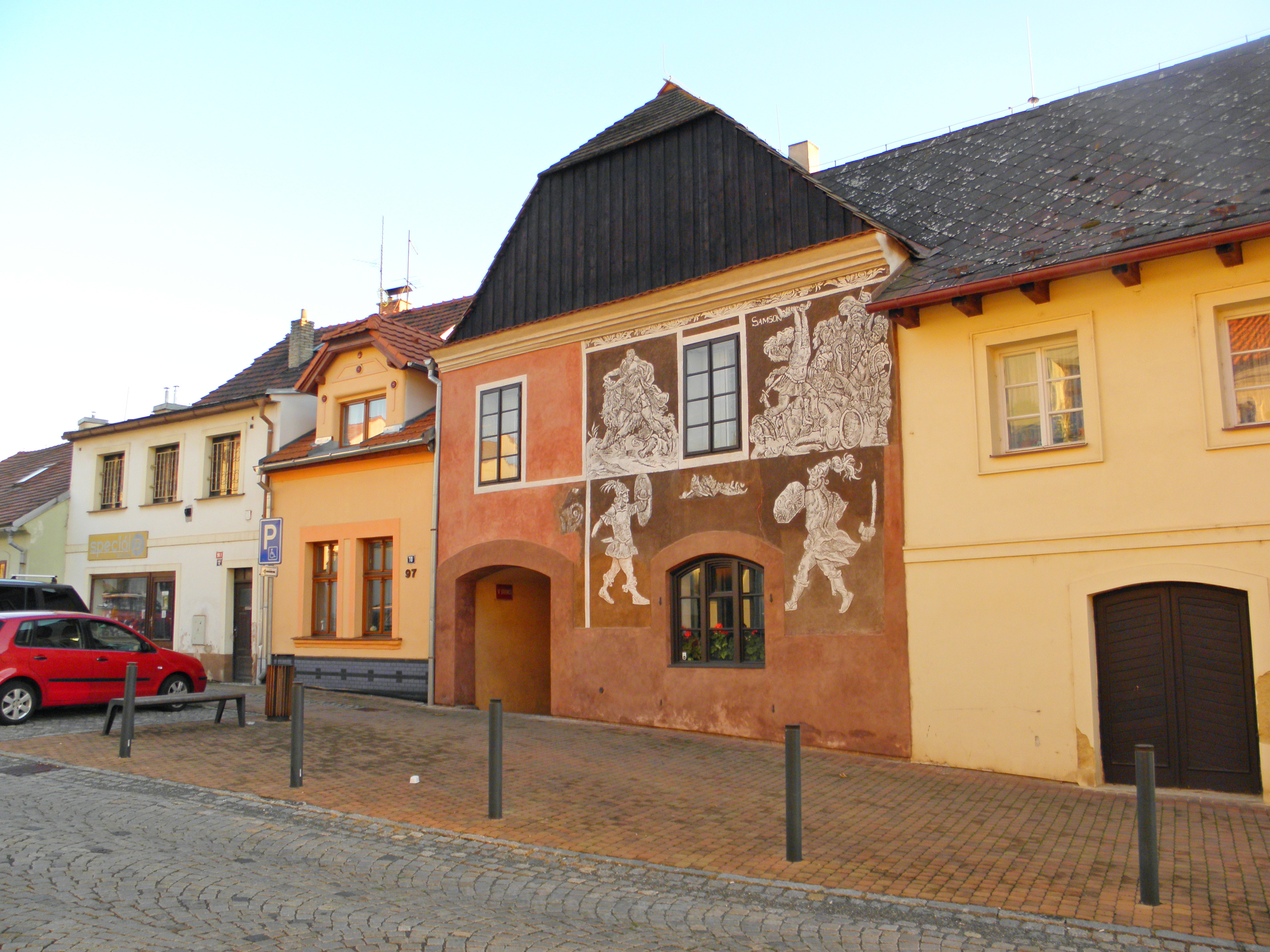 Houses on Vysoká street, on the left side of the Synagogue, the Jewish Town, Rakovník, Czech Republic